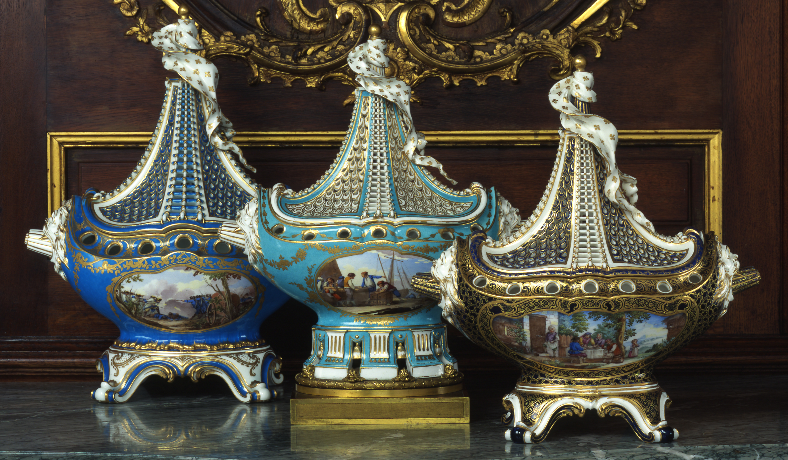 Three pot-pourri vases in the shape of a masted ship, the cover (extensively pierced) resembling sails and rigging.